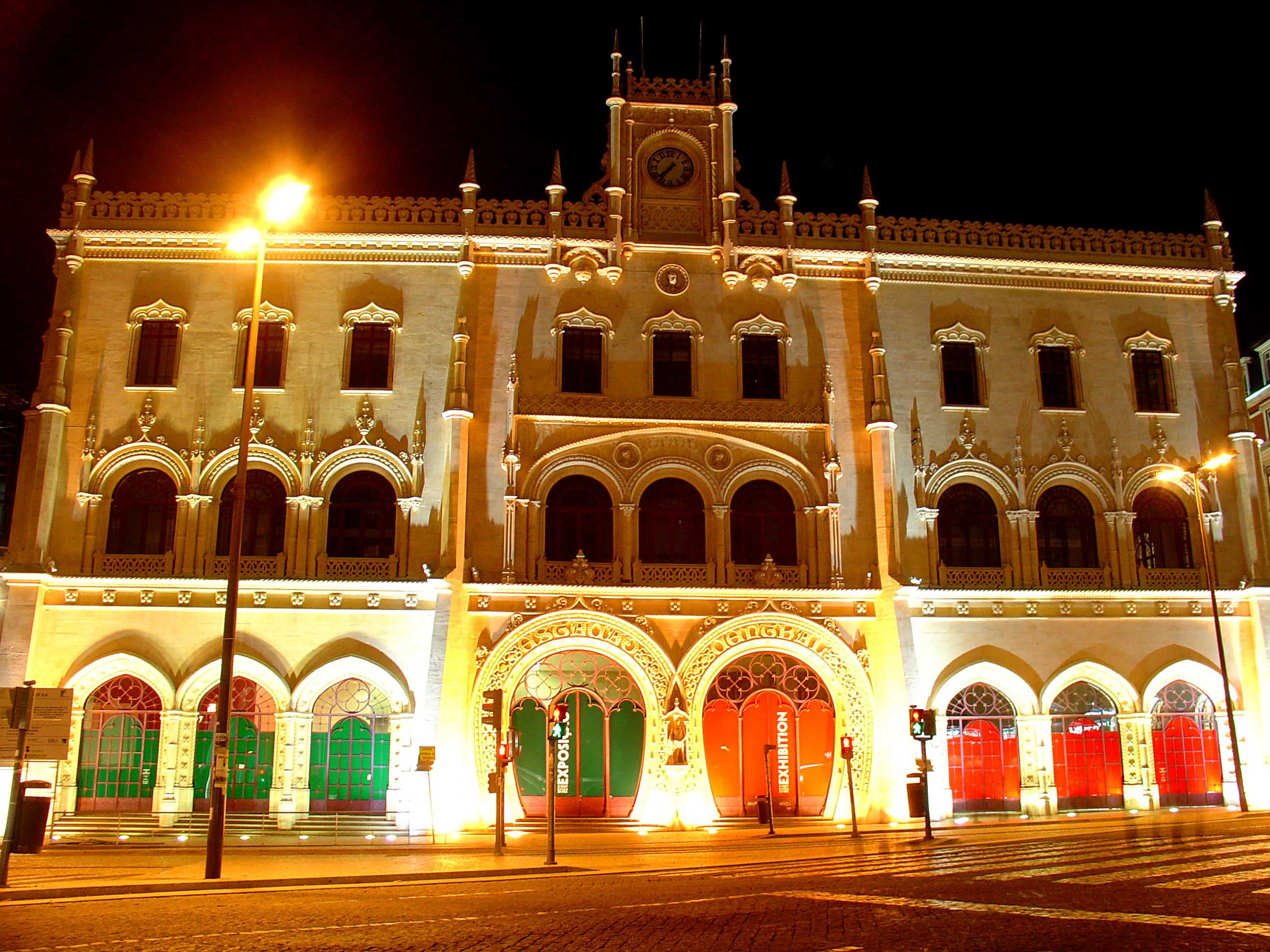 Rossio train station at night, Lisbon, Portugal